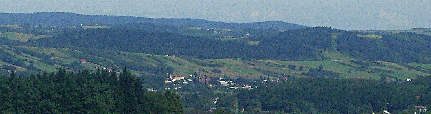 Panorama Kołaczyce (District Jasło)